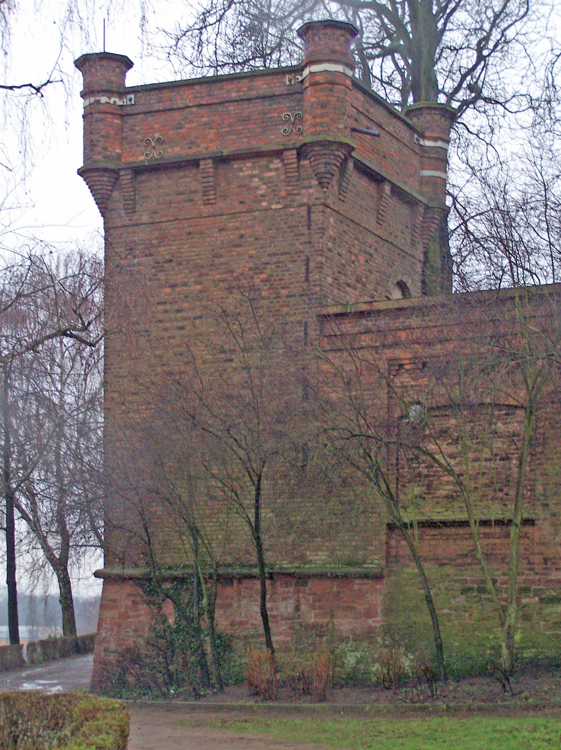 Ratskeller at the Bornheimer Hang in Frankfurt am Main-Bornheim, view to south, in December 2009